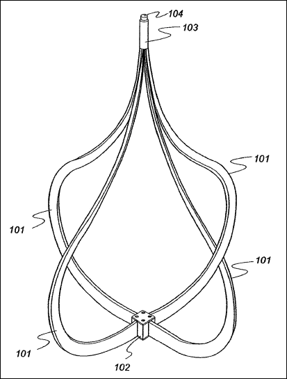 Optical arrays of surround fiber optical immunoassay (SOFIA)